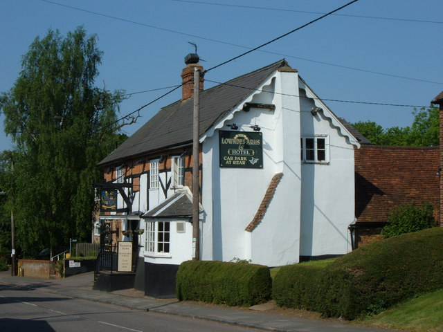 Lowndes Arms, Whaddon The local pub and steak restaurant in the Buckinghamshire village of Whaddon.